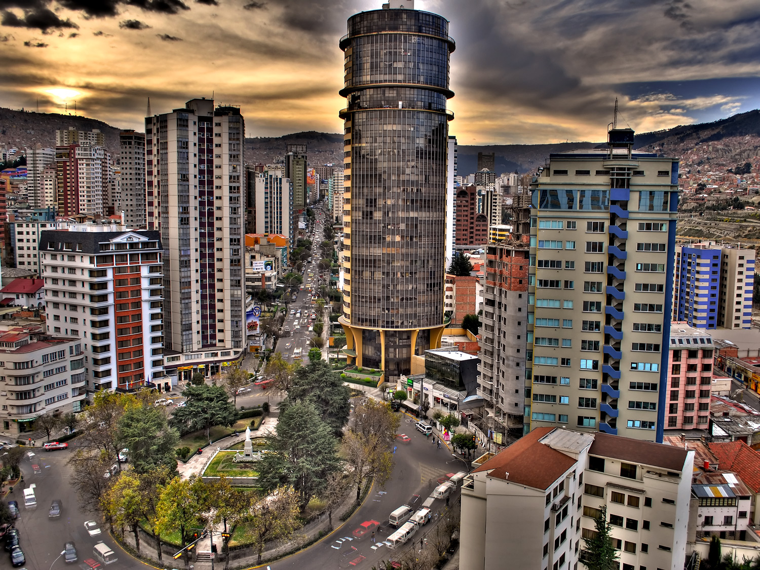 An HDR image from 3 JPG files, 2 EV interval. Plaza Isabel La Catolica, La Paz Bolivia.